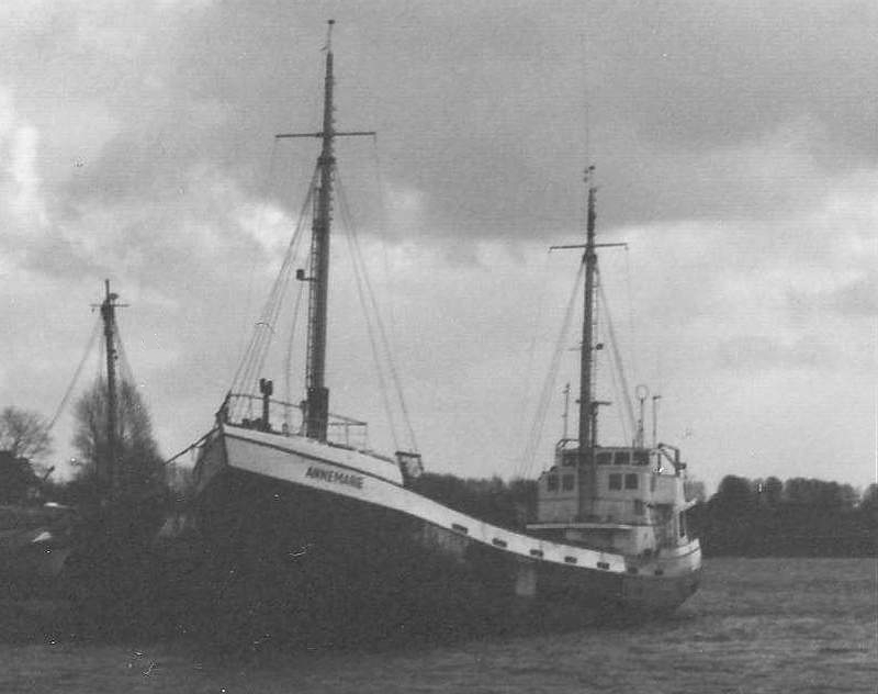 Motorship Annemarie at the pier of the Eberhard shipsyard in Arnis (Schleswig-Holstein)